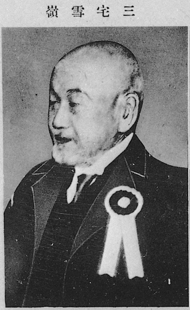 Portrait of Miyake Setsurei (三宅雪嶺, 1860 – 1945)